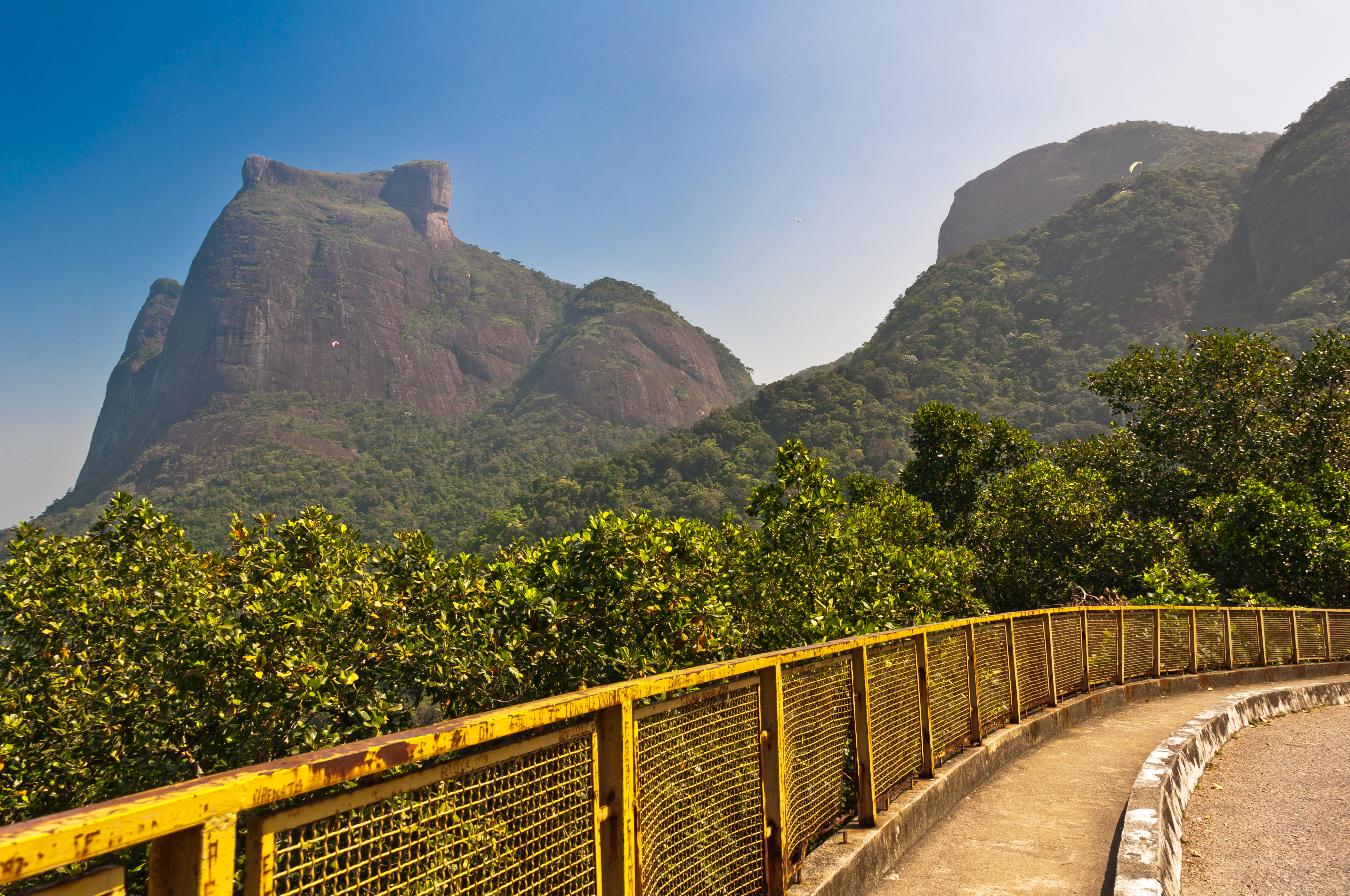 On the way to the top of the rock.